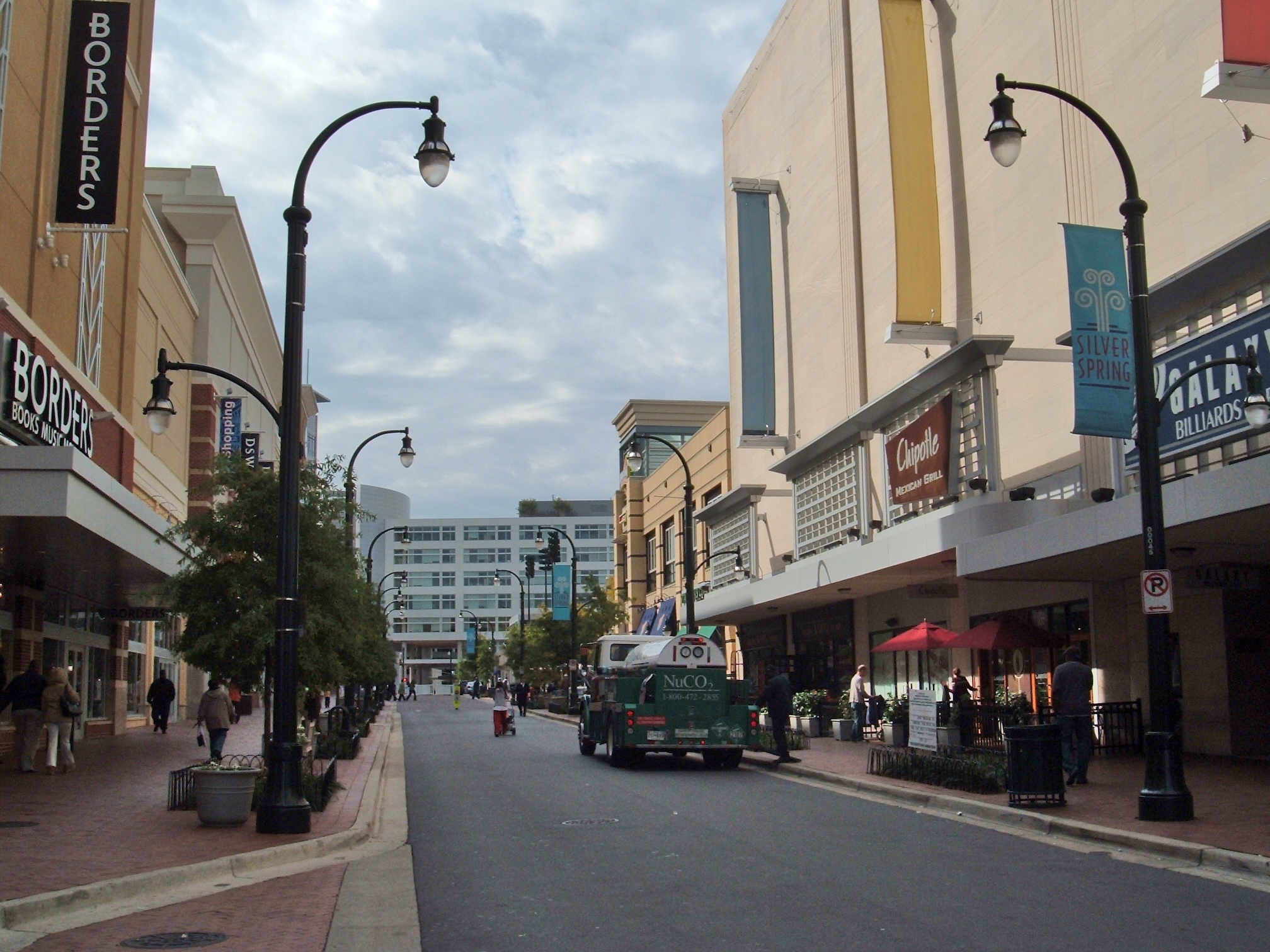 Ellsworth Drive in Silver Spring, Maryland.